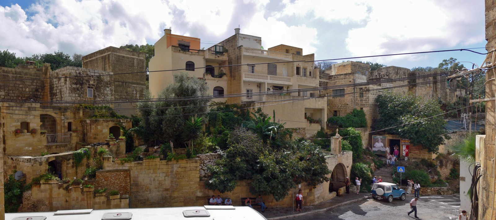 The fountain and surroundings at Fontana, Gozo